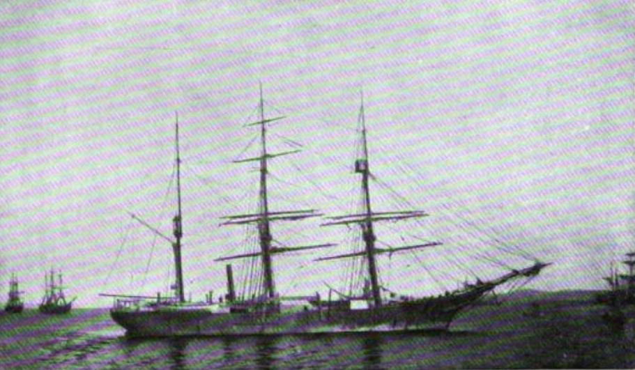 Photograph of the steam whaling bark Mary and Helen II, view of her starboard side, other whaling ships in the background. Mary and Helen II was the successor to Mary and Helen, the first US Pacific steam whaling vessel, later the USS Rodgers; The designs were very similar but the later ship was larger.